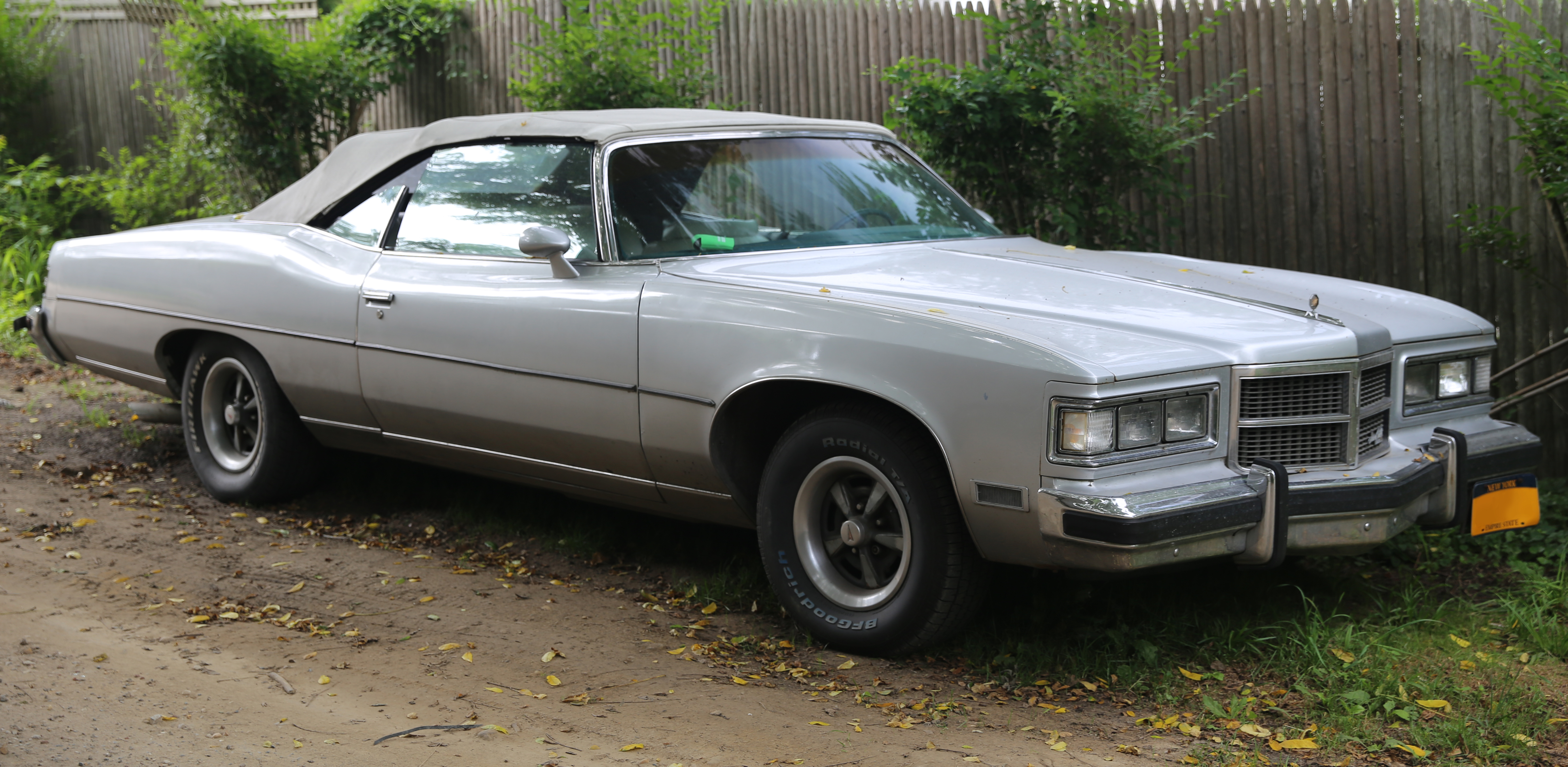 1975 Pontiac Grand Ville convertible, with the 455V8. Built in Pontiac, MI.